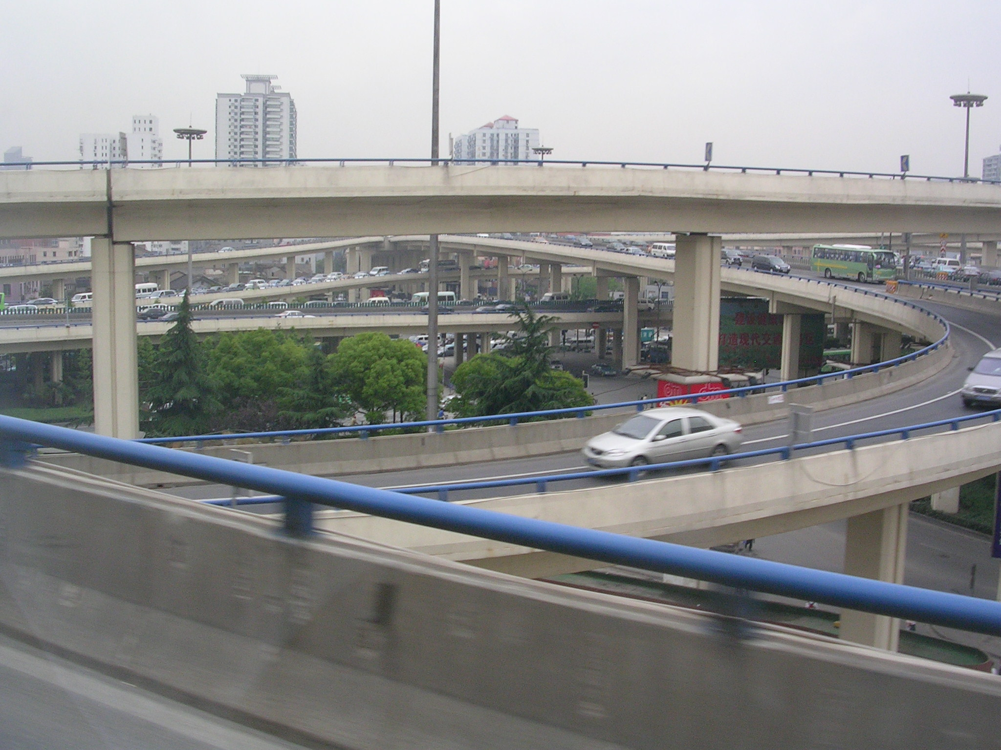 Highway interjunction in Shanghai